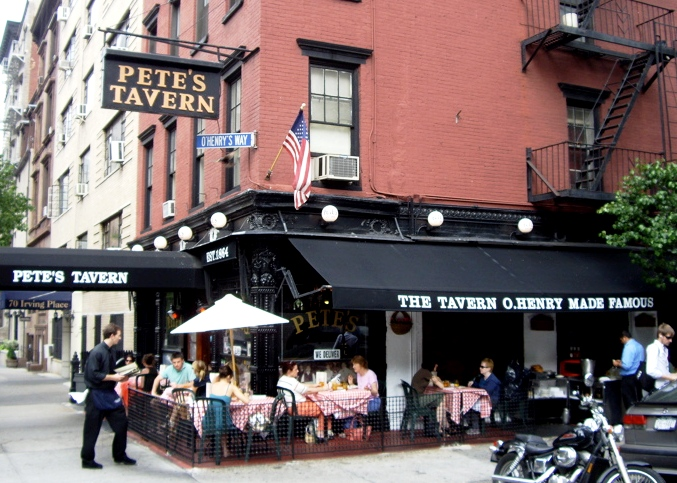 Pete's Tavern, on Irving Place, Manhattan, New York City, New York State